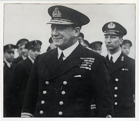 Vice-admiral Max Horton as Commander-in-Chief, Submarines, Home waters